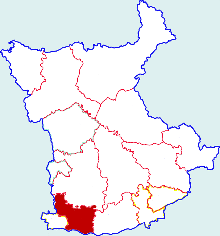 Location of Wugong county in Xianyang city, China